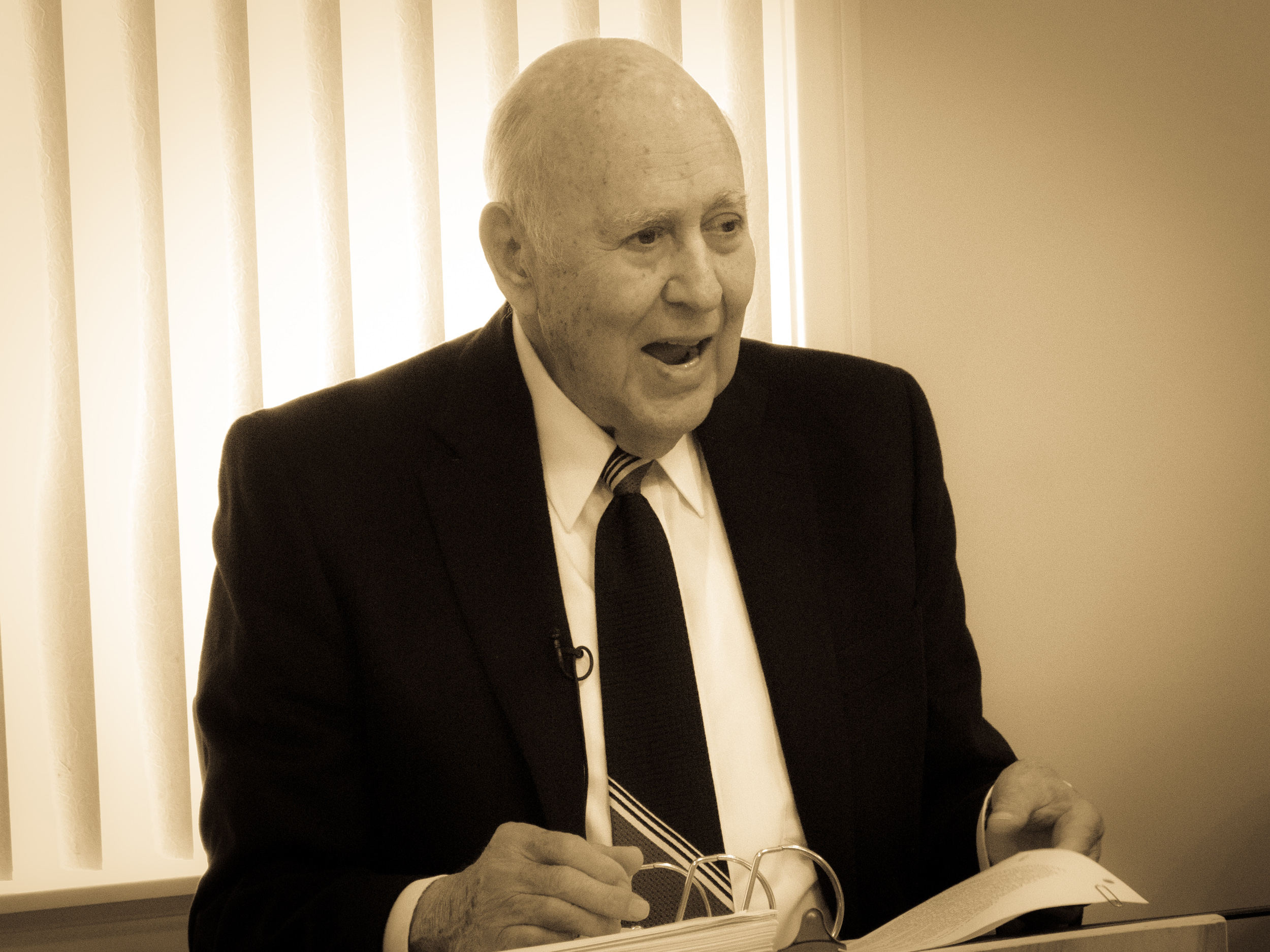 Actor Carl Reiner, June 26, 2012